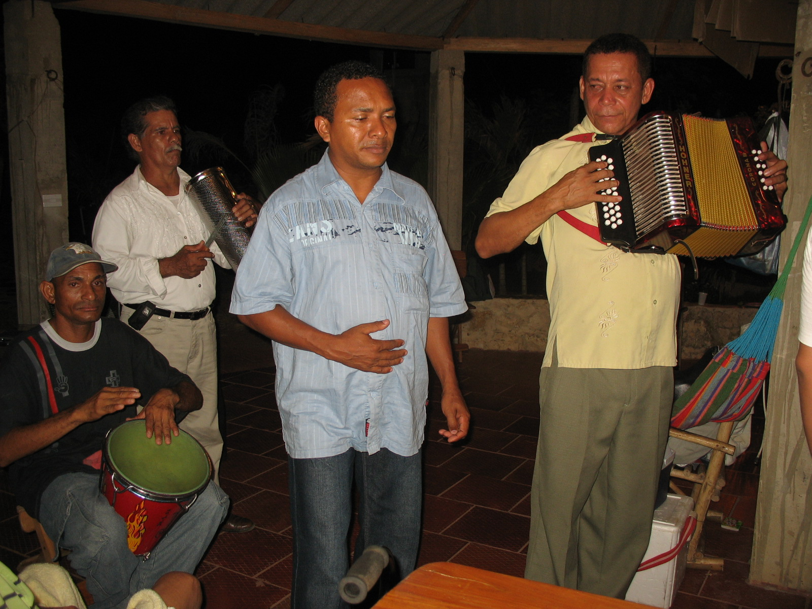 Vallenato group